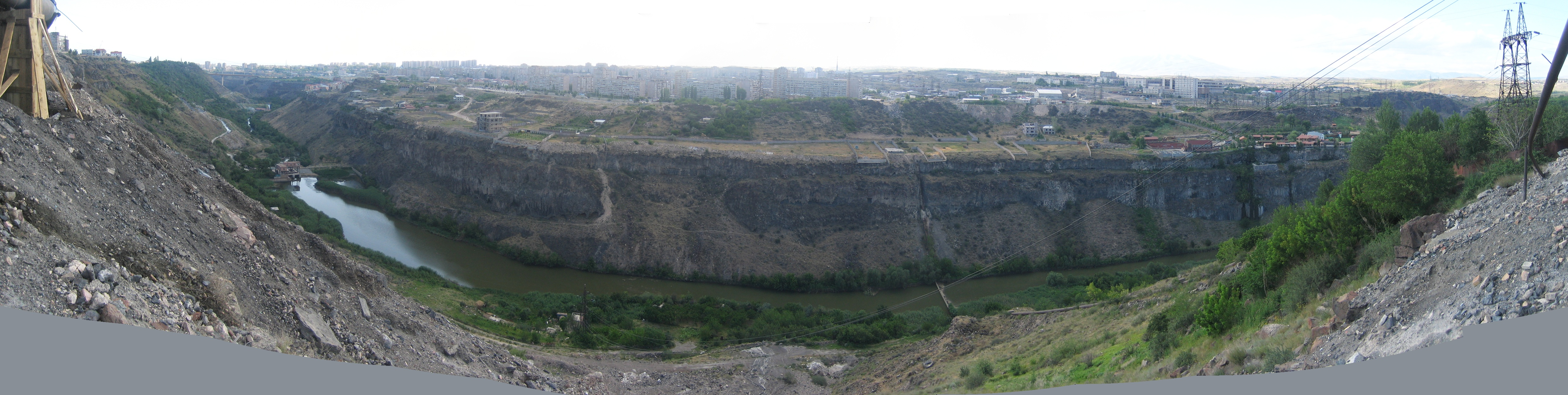 A panorama of the Davtashen district of Yerevan, Armenia, as viewed from Arabkir. The Hrazdan River runs through the gorge.